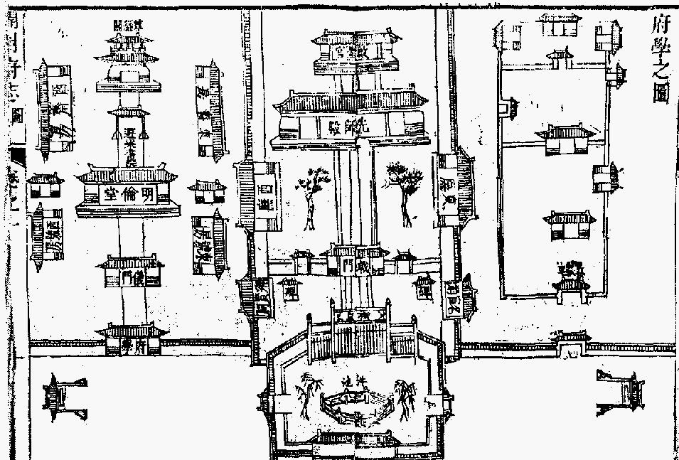 An old map of Kaifeng Confucius Temple